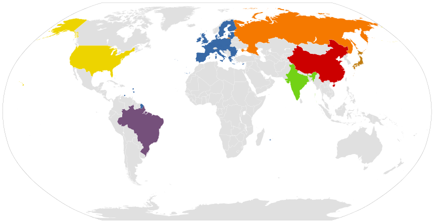 Superpowers